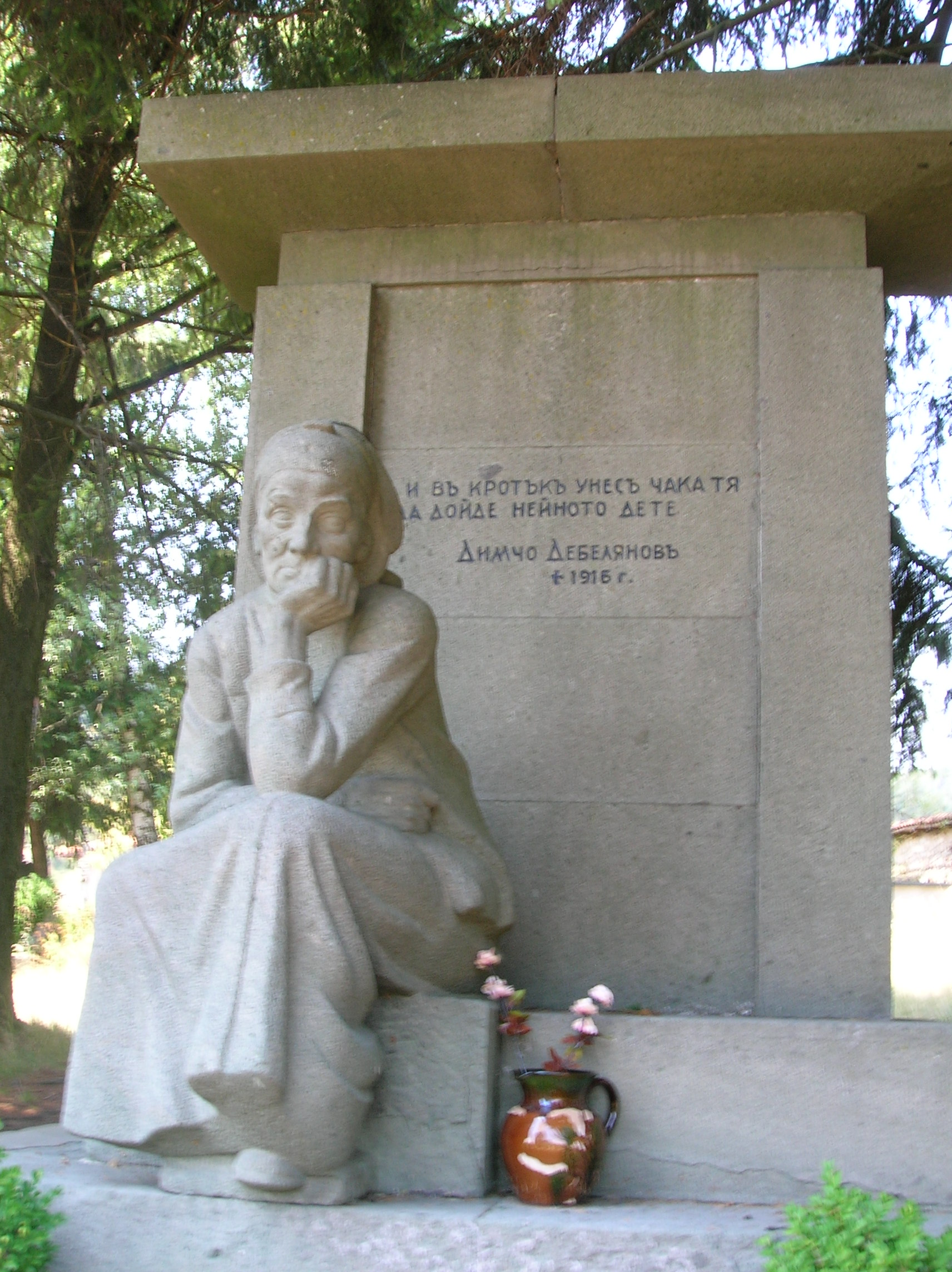 Tombstone of Dimcho Debelyanov (with a statue representing his mother), in Koprivshtitsa (Bulgaria).